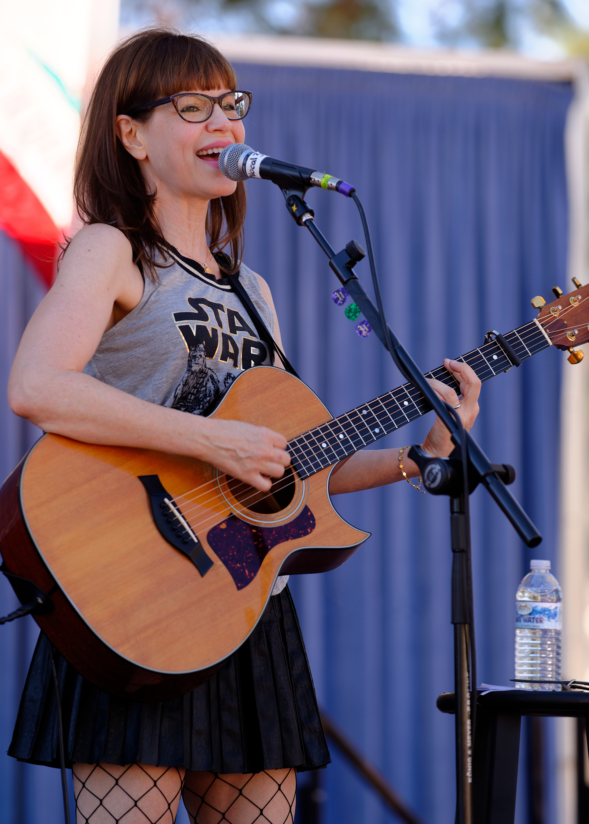 Lisa Loeb performing at "Spokes In The Oaks" in Thousand Oaks California on Saturday October 31st, 2015. This was the city's inaugural Open Street Festival. Brooke White opened for Lisa.